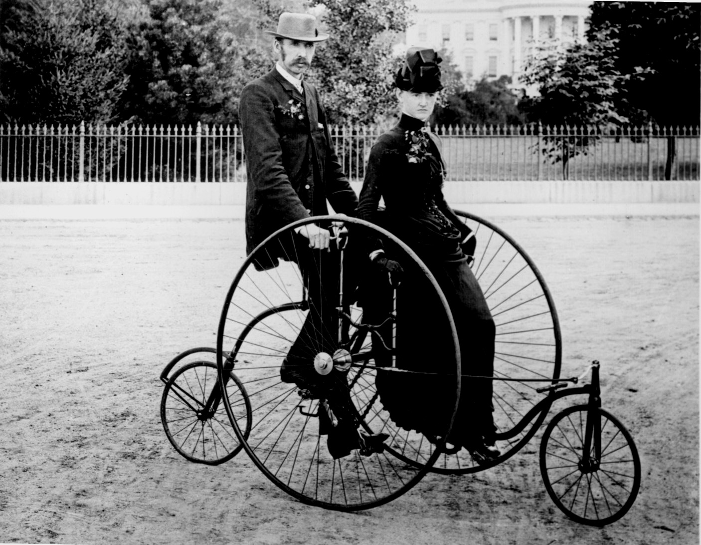 Smartly dressed couple seated on an 1886-model quadracycle for two. The South Portico of the White House, Washington, D.C., in the background.